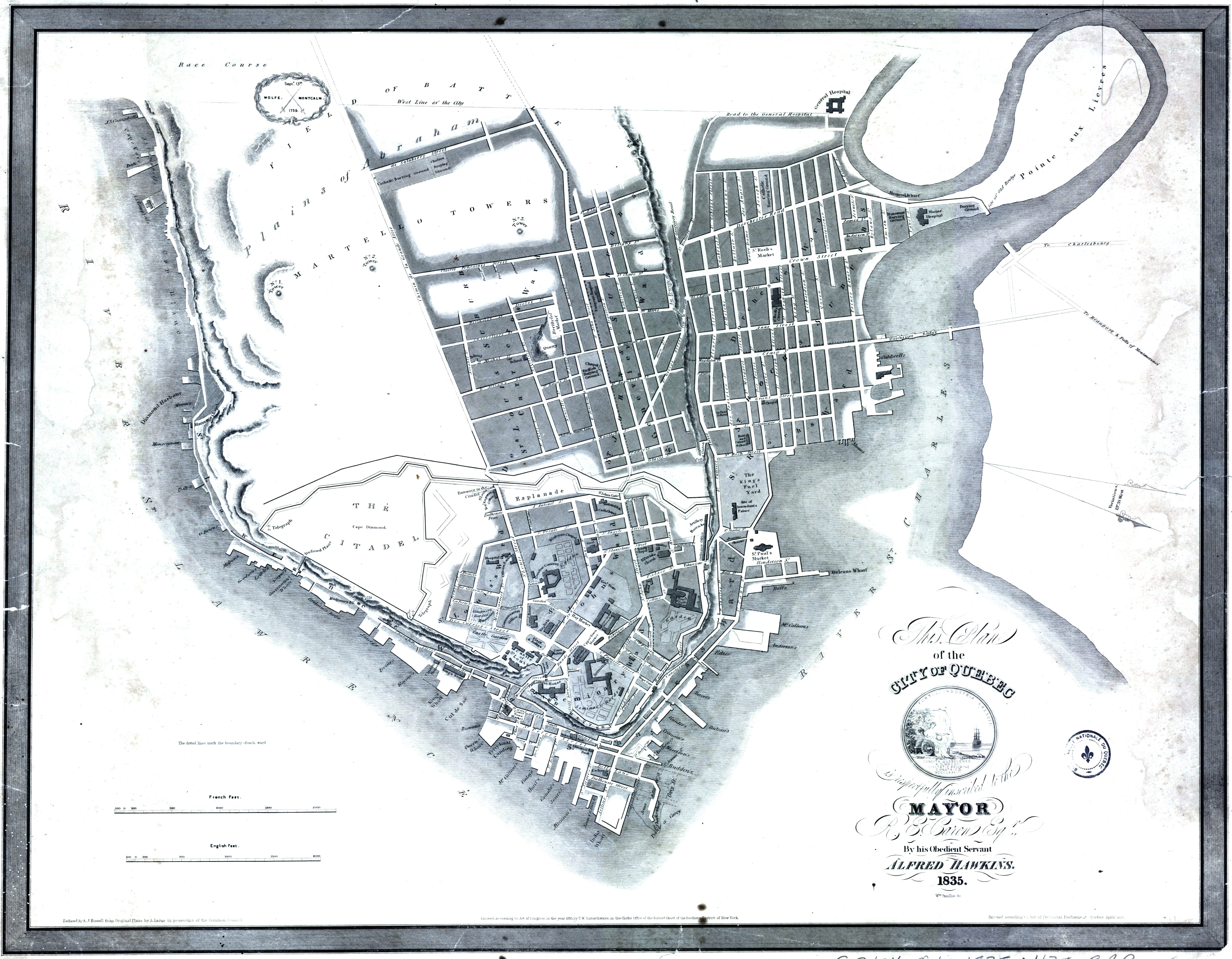 This plan of the city of Quebec is respectfuly inscribed to the Mayor R.E. Caron esqr